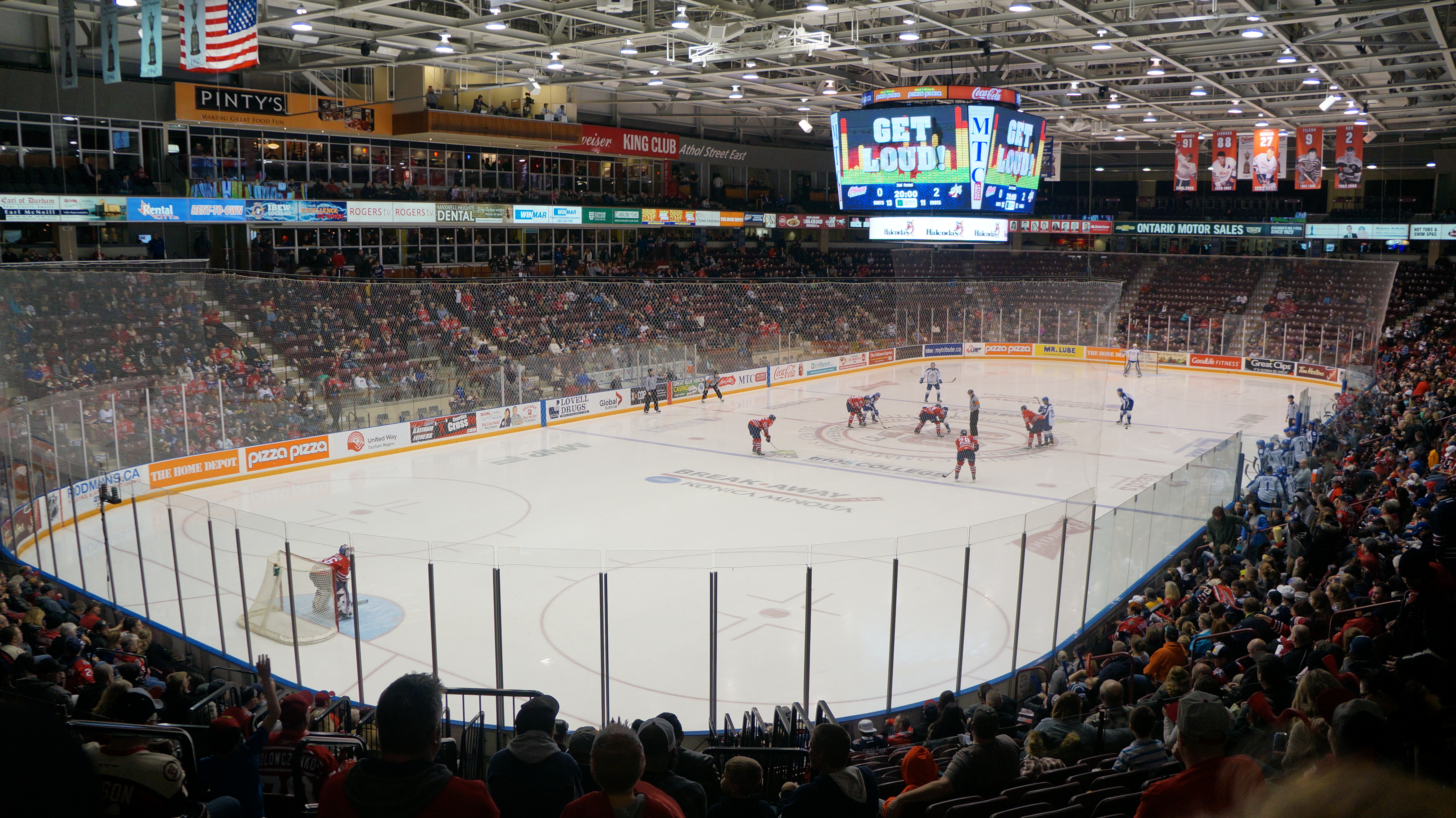 Interior of the Tribute Communities Centre, 2017. Taken March 24, 2017. Oshawa Generals vs Sudbury Wolves